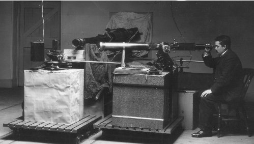 See the Wikipedia article on JKE Halm for significance of this work. SAAO Archives P6694